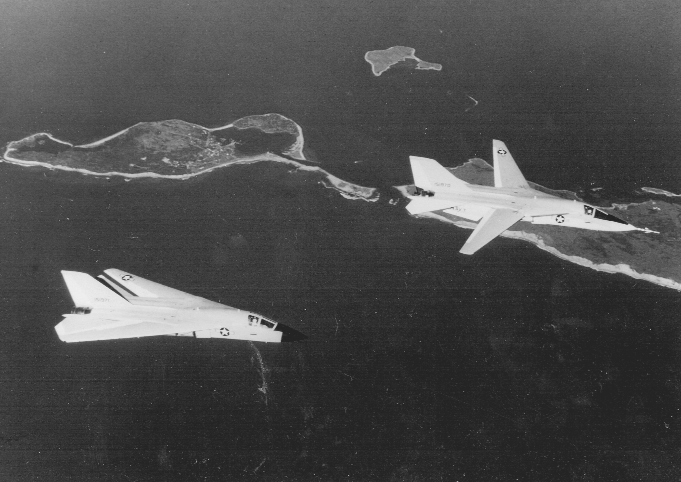 The first two U.S. Navy General Dynamics/Grumman F-111B fighters (BuNo 151970, 151971) in flight over Cuttyhunk Island, Massachusetts (USA). 151970 made its first flight on 15 May 1965 and was stricken on 3 December 1969. 151971 crashed on 11 September 1968 into the Pacific Ocean 160 km west of Point Mugu, California (USA) and 35 km north of San Miguel Island. The test pilots Barton Warren and Anthony Byland were killed.